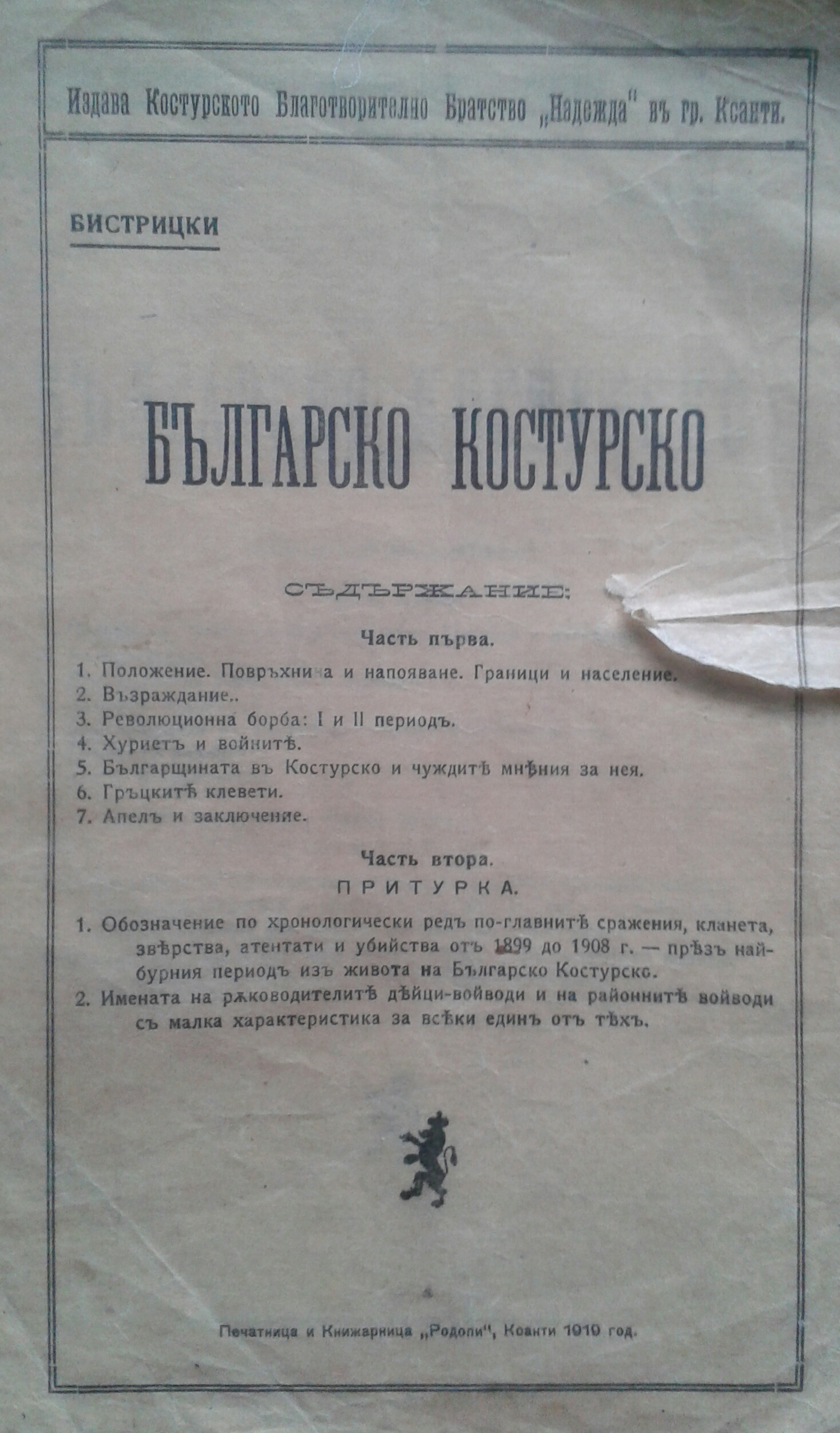 "Balgarsko Kostursko" ("Bulgarian Kostur Region") front page, Xanthi, 1919.